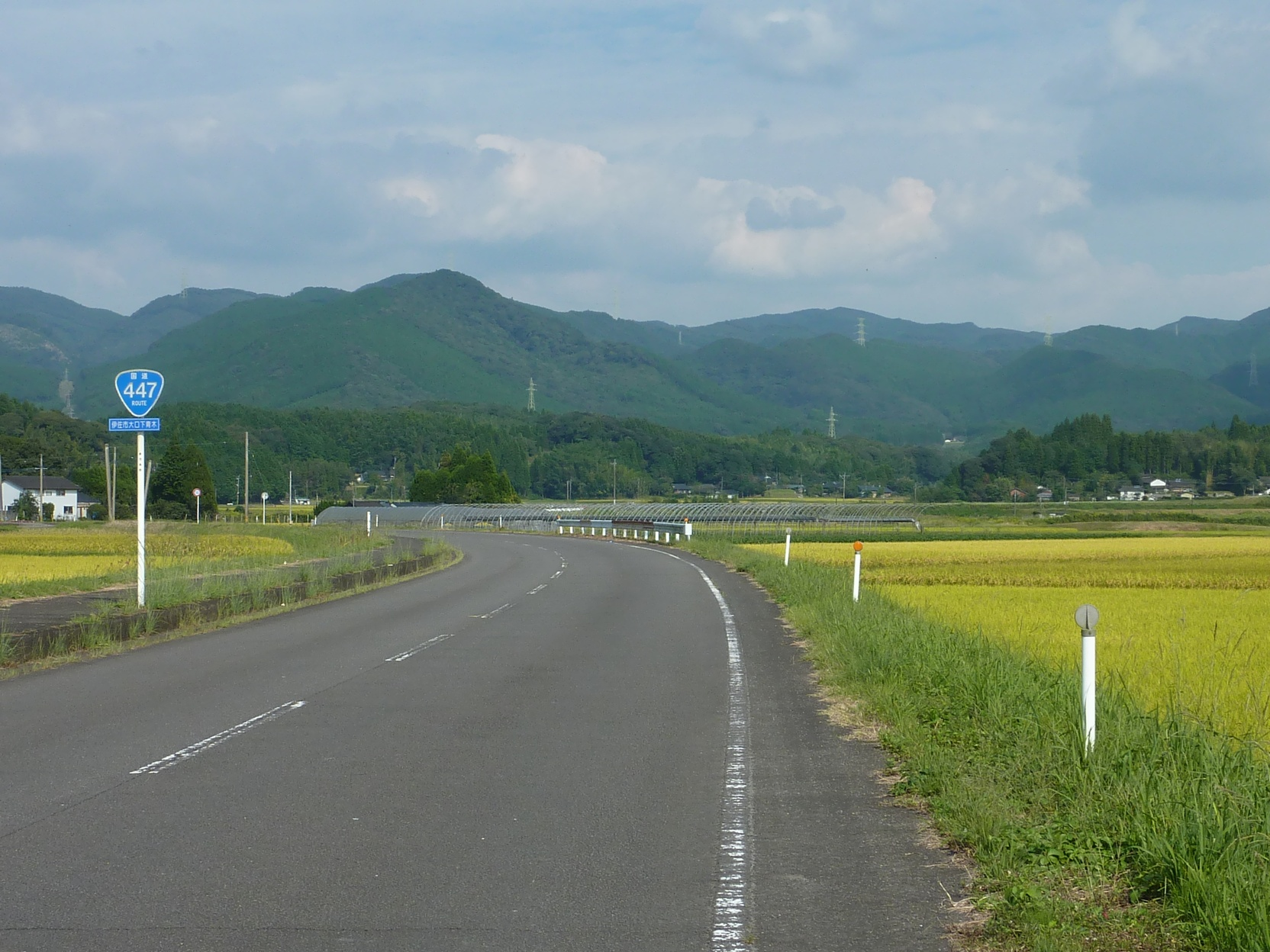 The National Route 447 (Okuchi-Aoki, Isa City, Kagoshima Prefecture, Japan).